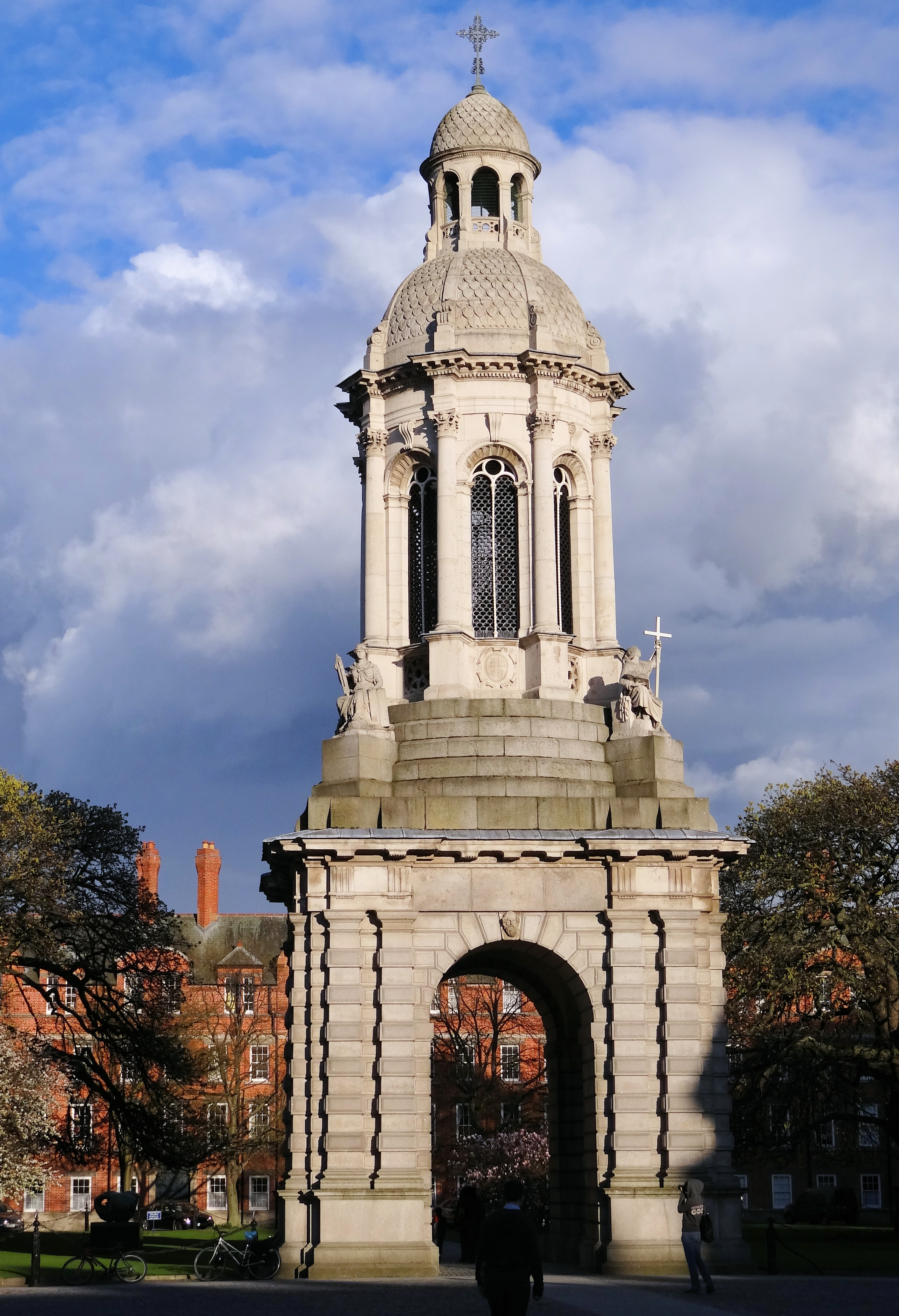 The Campanile at Trinity College, Dublin, as seen when you enter the college courtyard through the main entrance from Grafton Street/College Green.